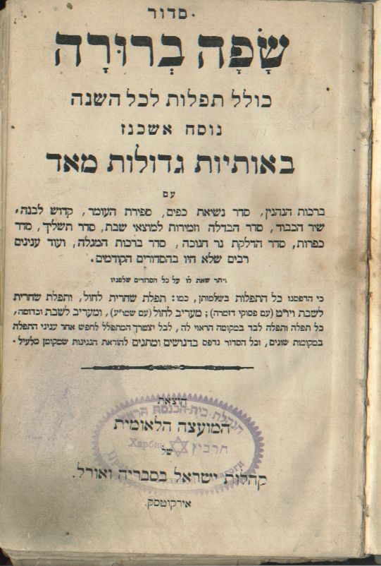 Sidur Prayer book from Irtusek, Sibiria